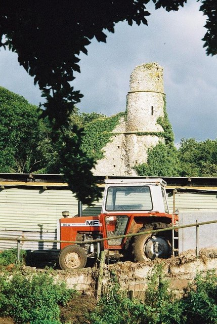 Holditch: tower in the farmyard This picture of 513028 demonstrates its farmyard position.